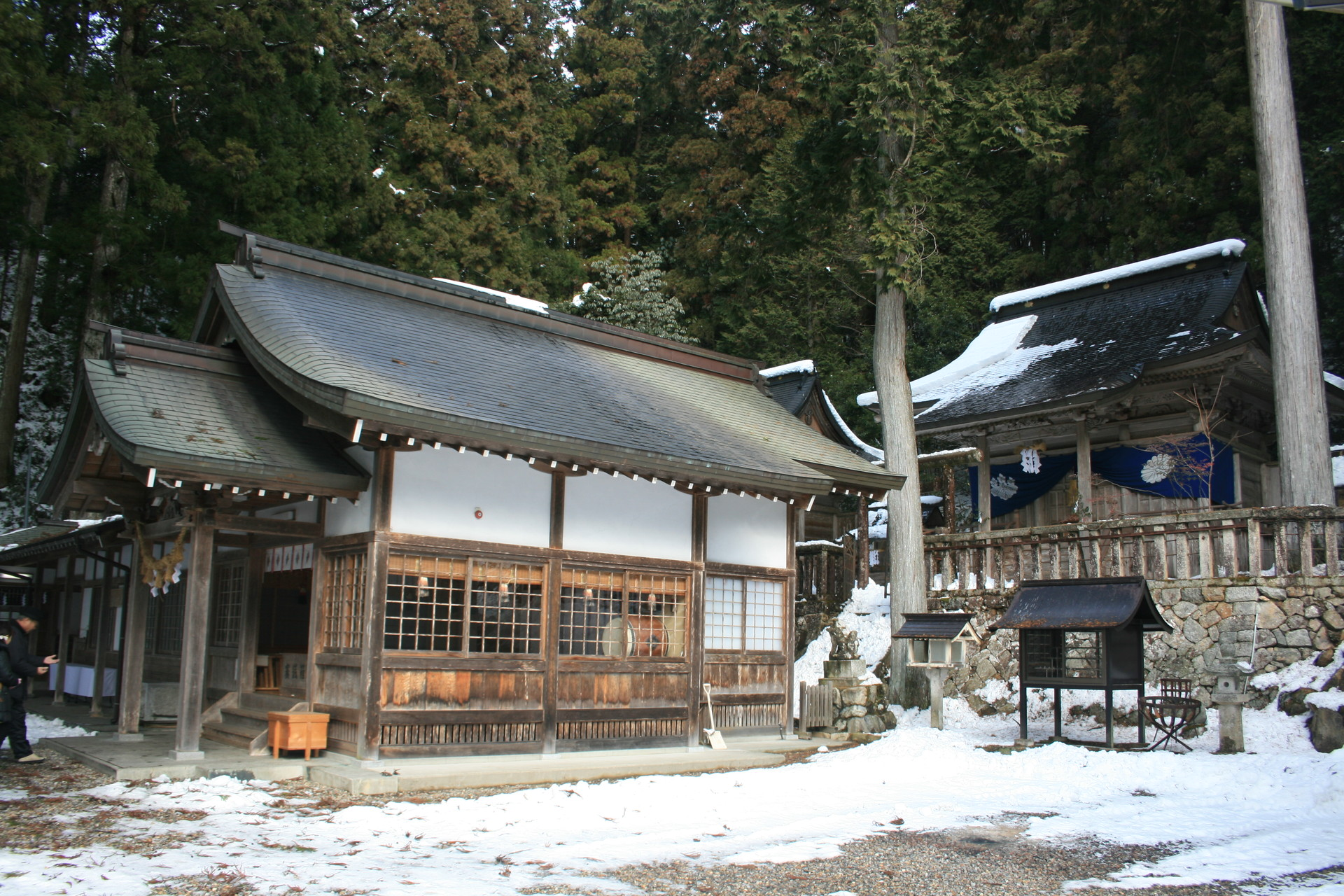 Kouka jinja